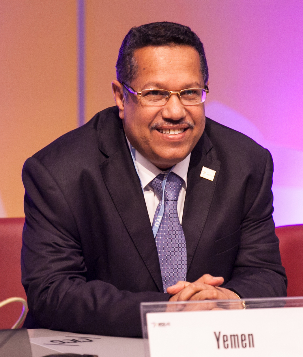 H.E. Mr Ahmed Obaid Bin-Dagher Minister, Ministry of Telecommunications Yemen at the WSIS+10 High-Level Policy Statements: Session One © ITU/R.Farrell